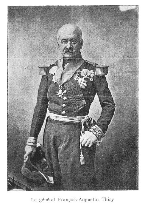 Né le 24/02/1794 et mort le 18/12/1875